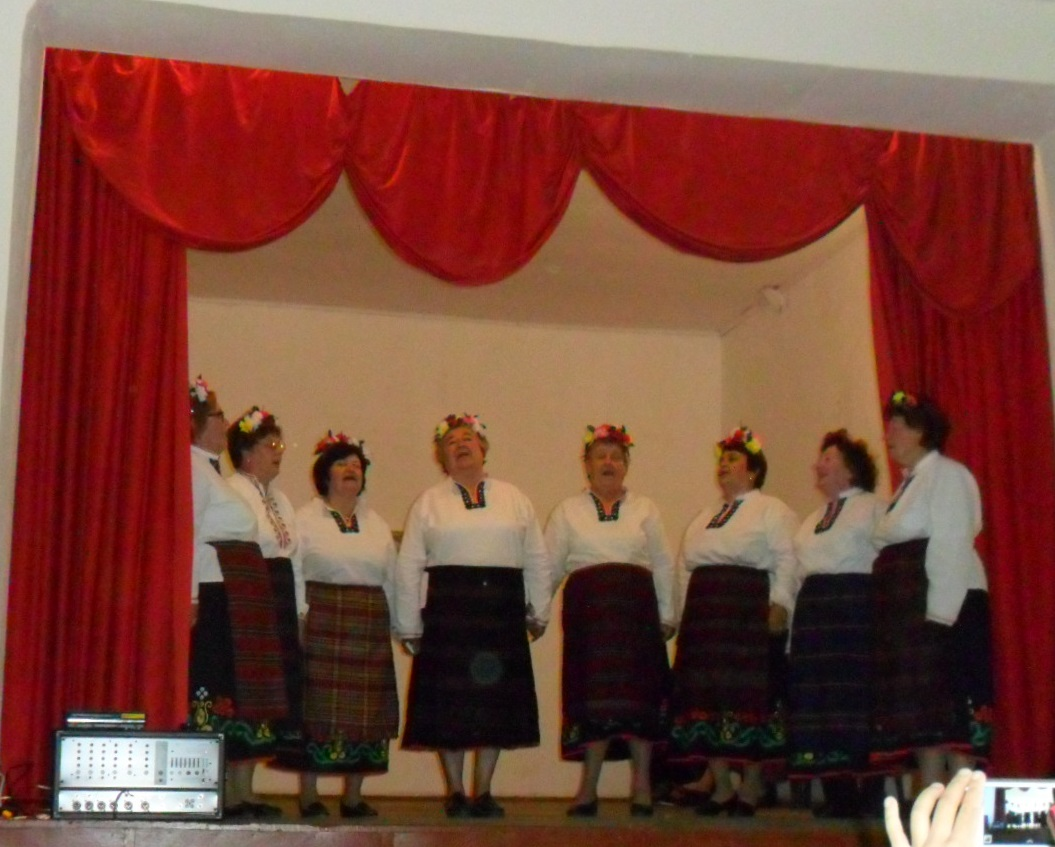 amateur group for authenticate folklore Ostretz village